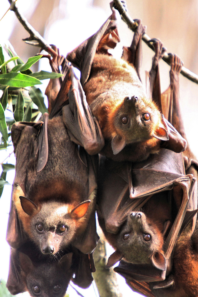 Little Red Flying Foxes hanging in a close group, in Maitland NSW